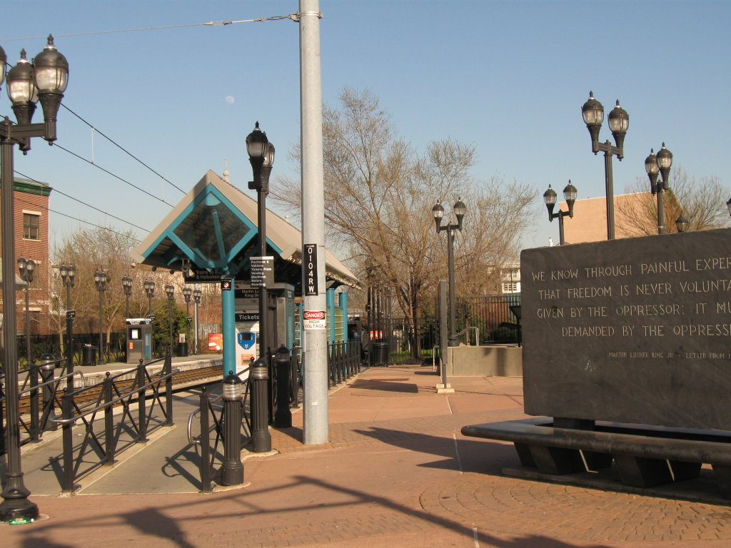 The Martin Luther King Drive HBLR station, looking from King Drive.